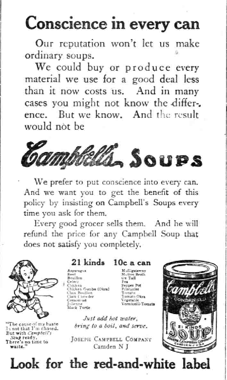 Campbell's Soup newspaper ad from 1911.